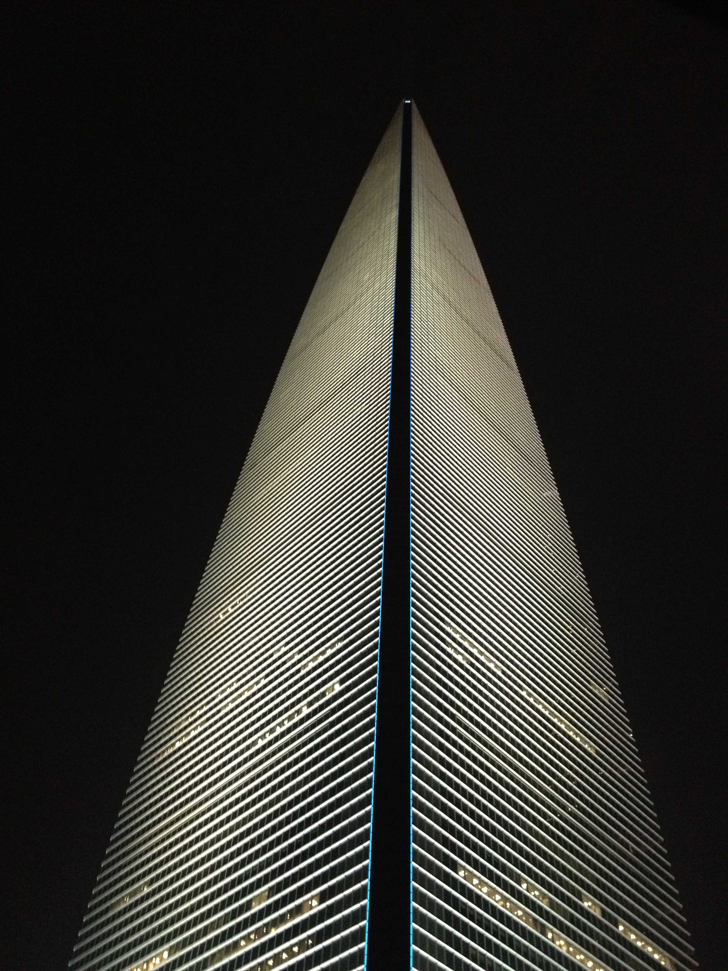 Shanghai World Financial Center during the night